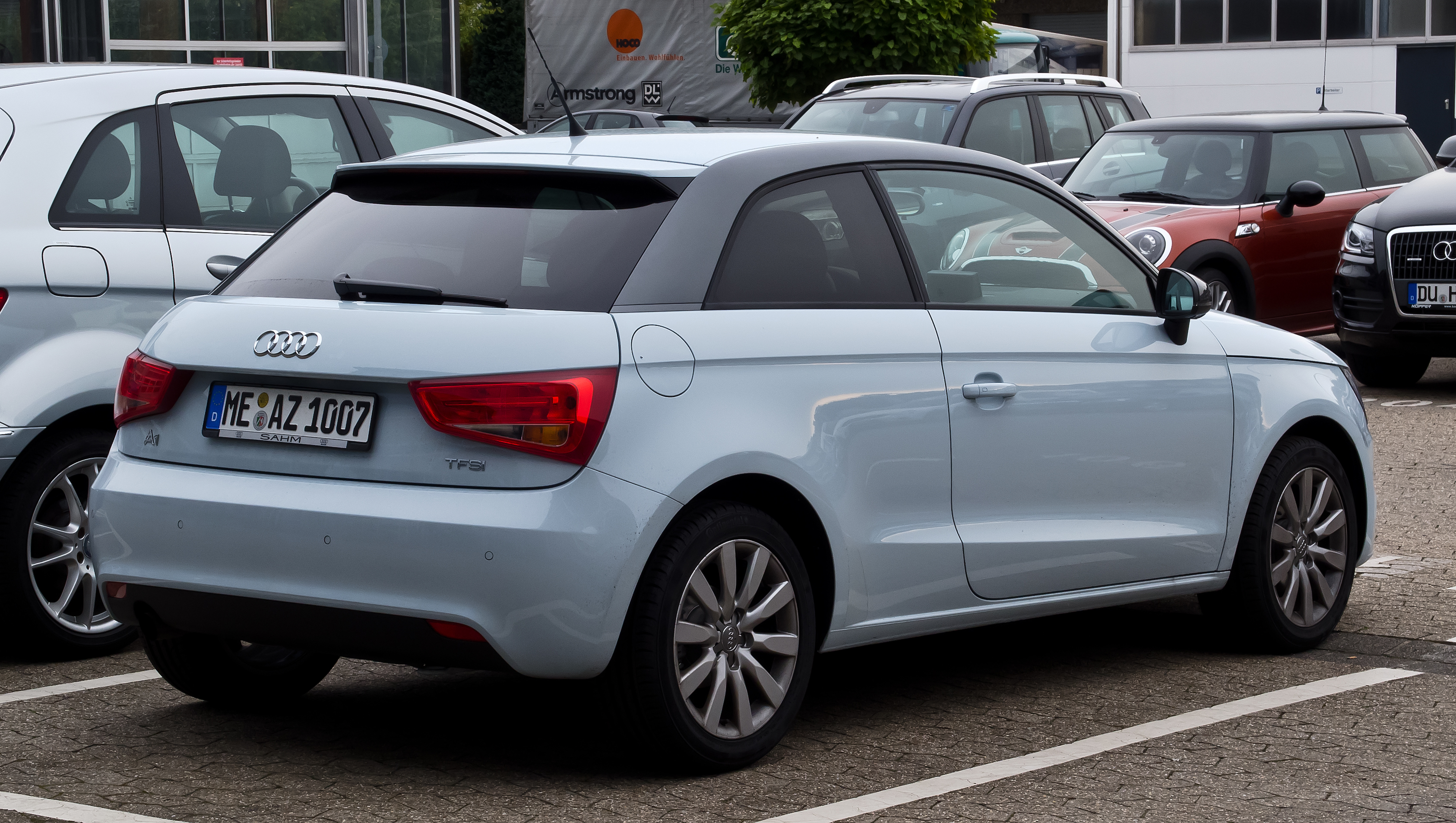 Audi A1 1.2 TFSI Attraction